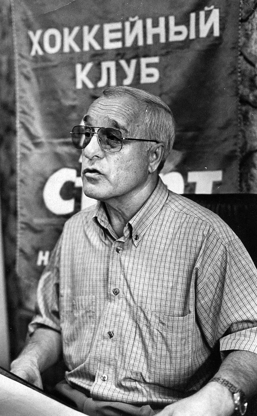 Fokin, Yuri Efimovich as the coach of the Nizhny Novgorod "Start"